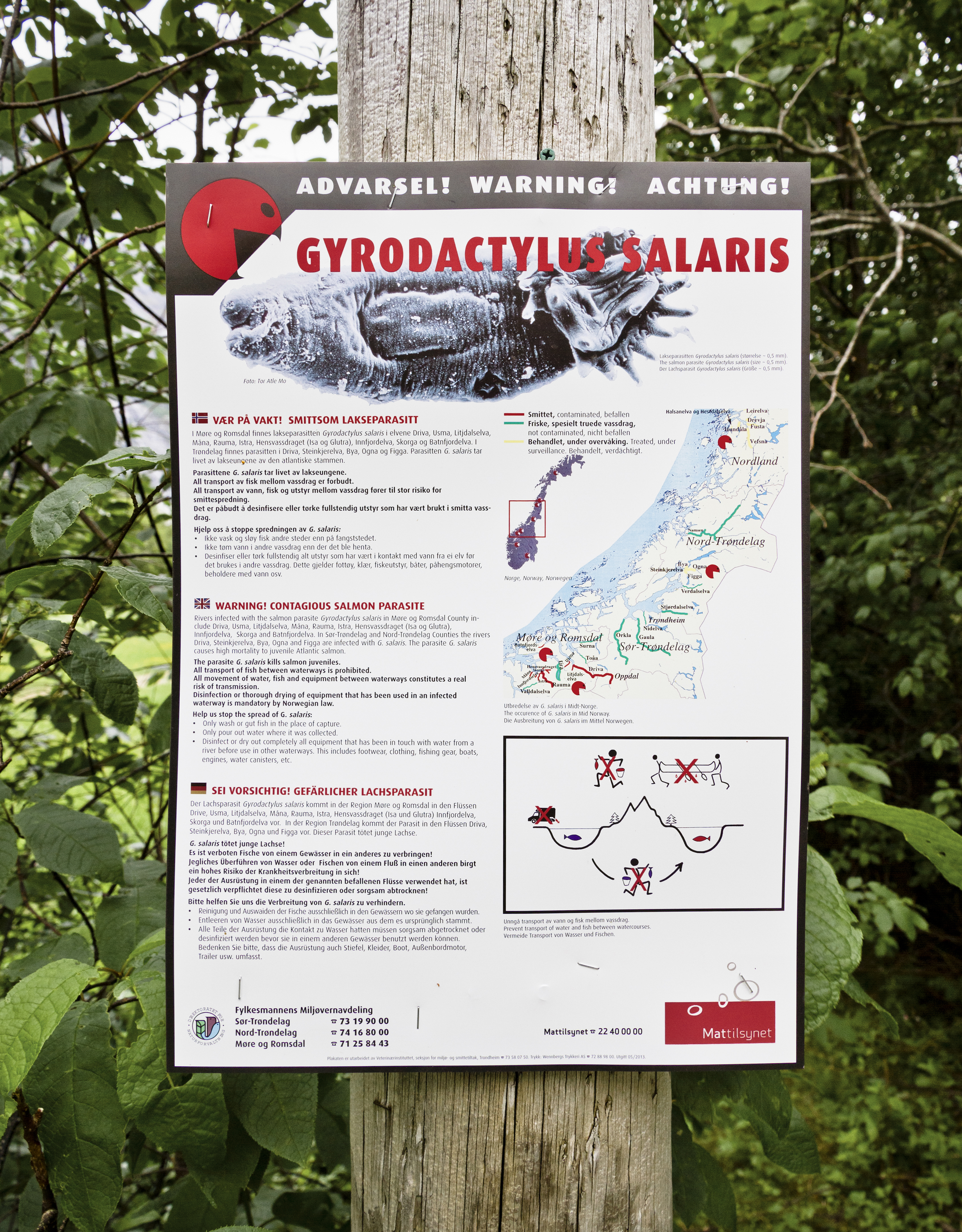 An information board about Gyrodactylus salaris parasite (Salmon Fluke) in Romsdalen, Rauma municipality, Møre og Romsdal, Norway. This was located at the Rauma river which has already been exposed to the species of flatworm.